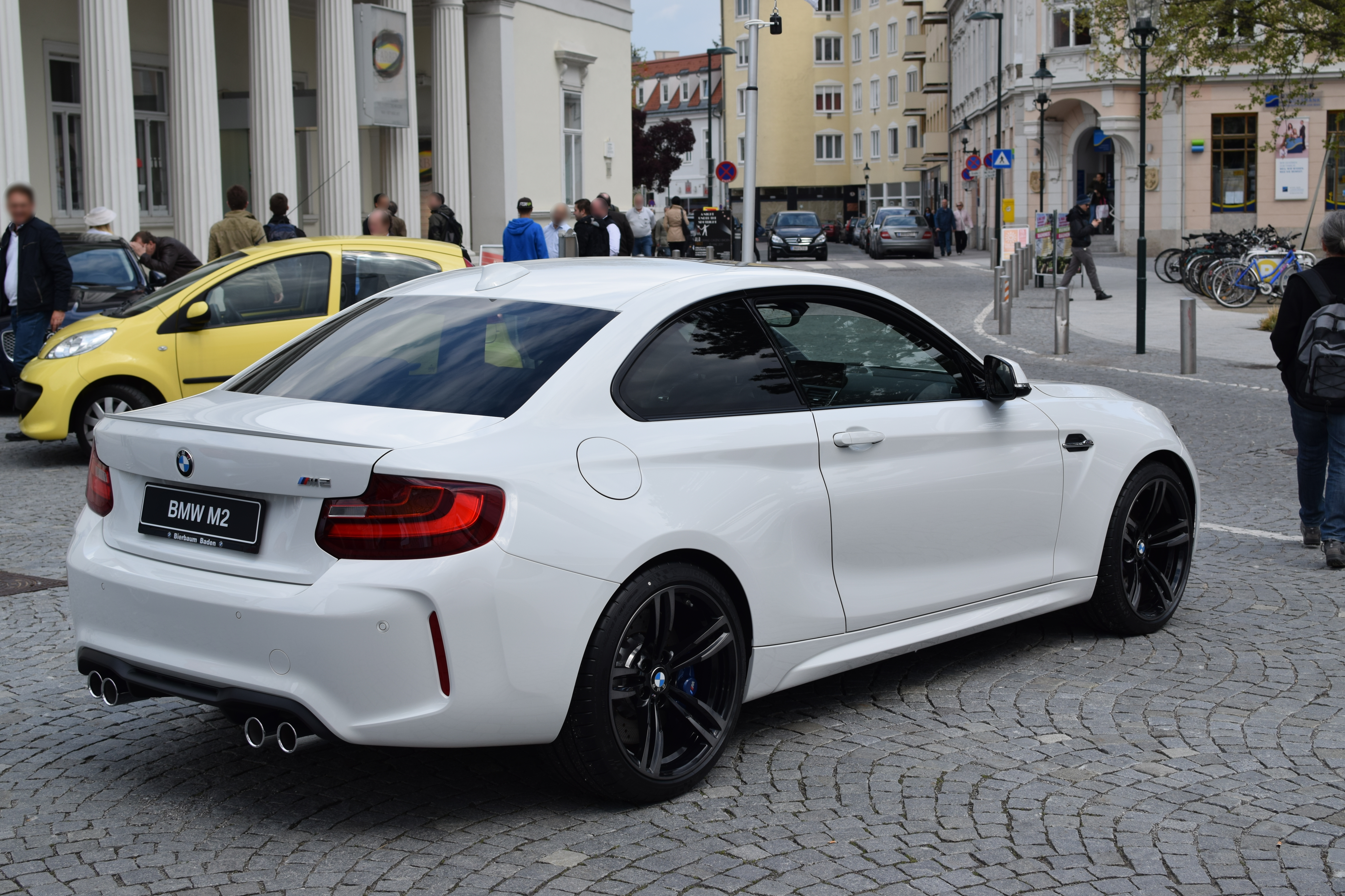 2017 BMW M2 (F22) in white shown from the rear right